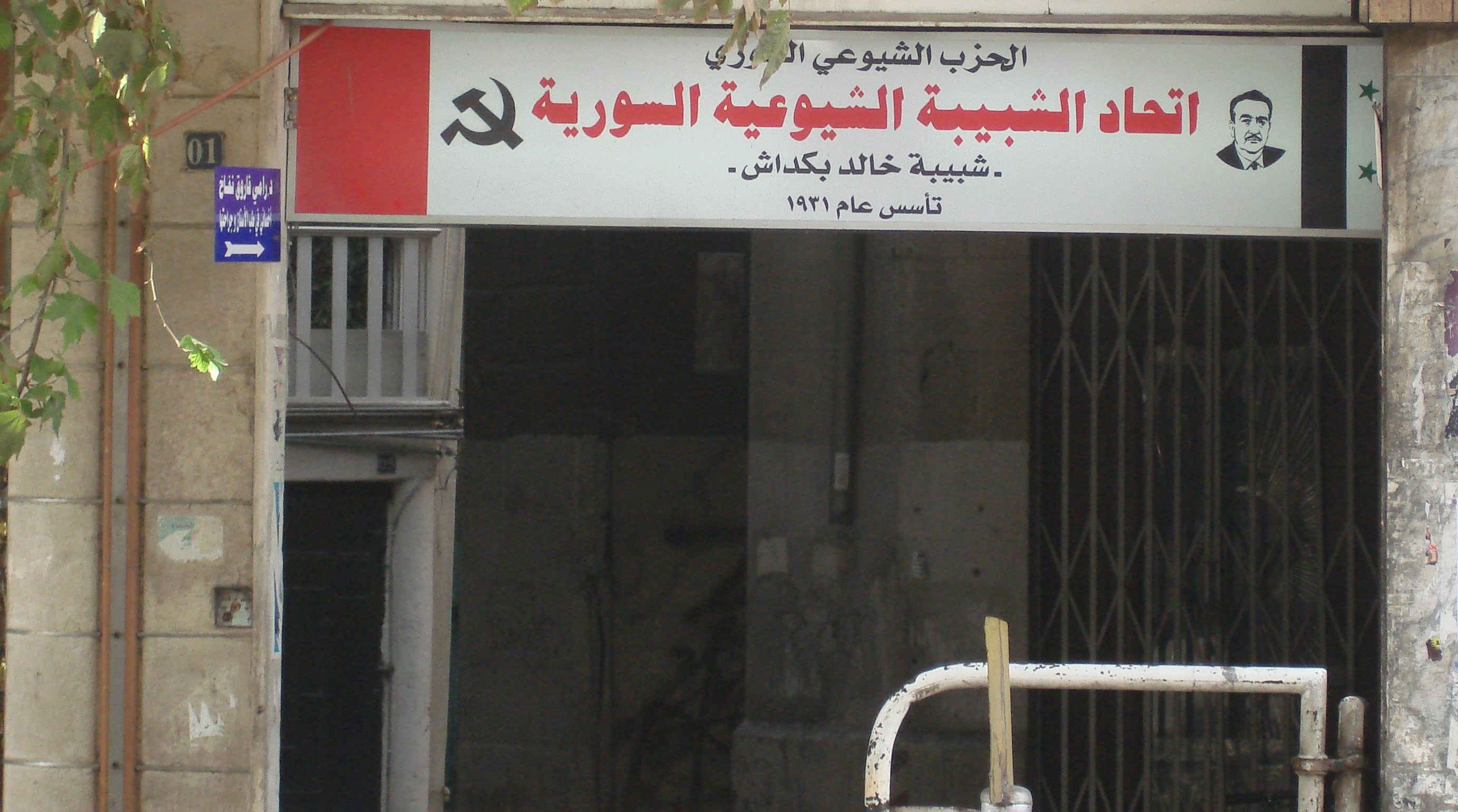 Syrian Communist Youth Union offices in Damascus